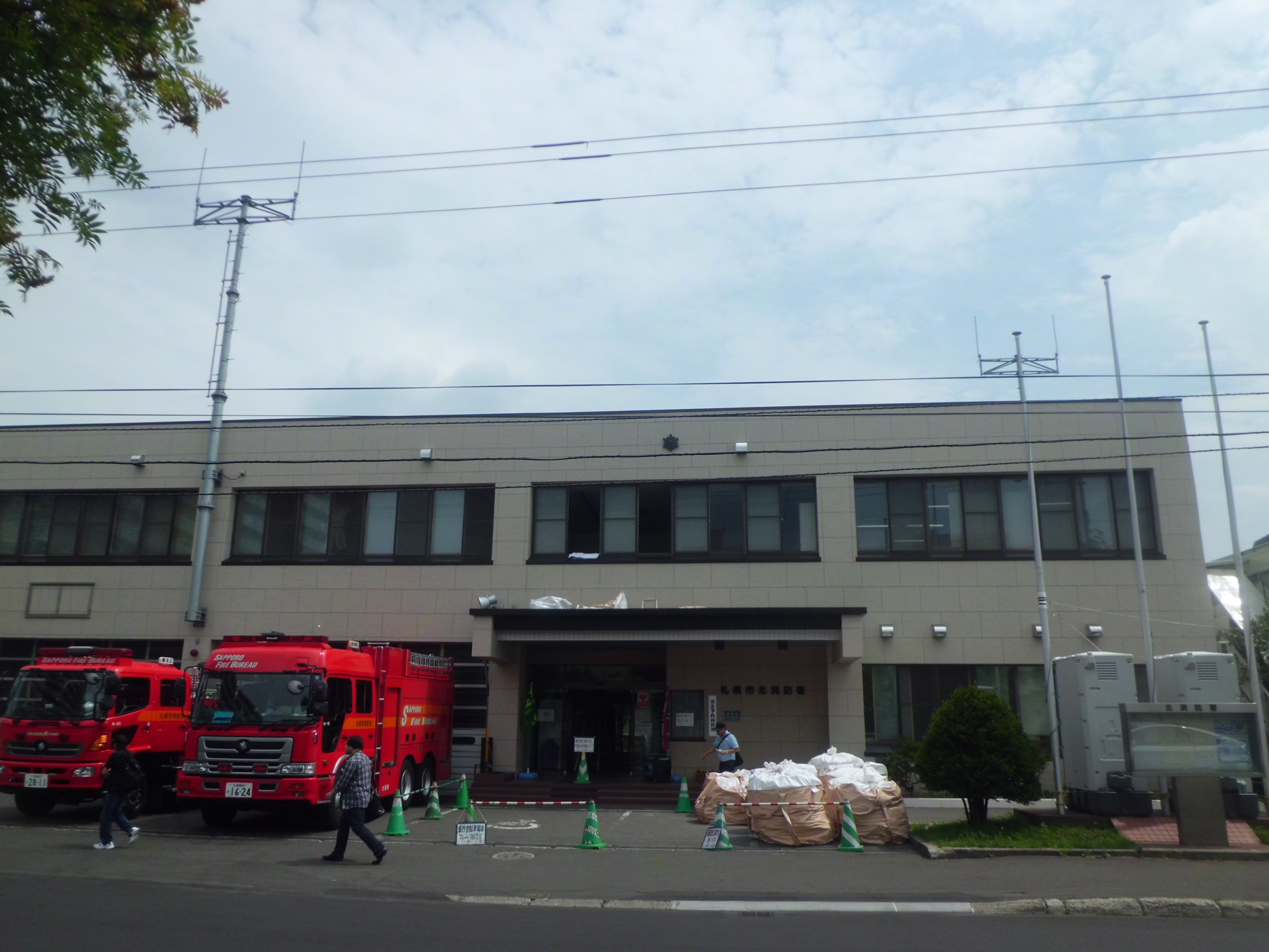 Sapporo City Kita Fire Station